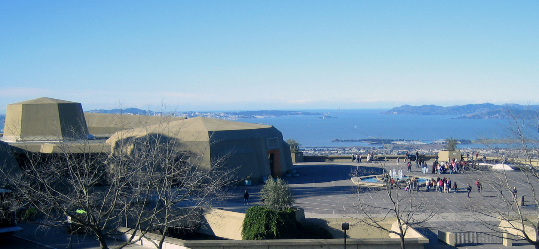 Cropped version of File:LawrenceHallofScience2007.jpg